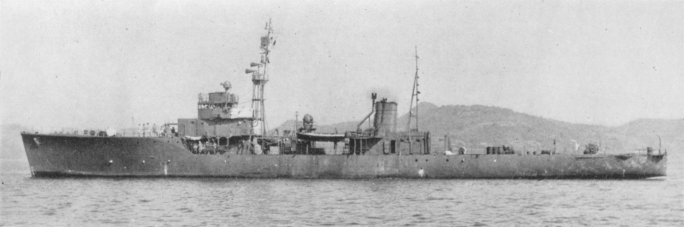 Japanese escort ship Yashiro. just before leaving Sasebo for Tsingtau, 25.8. 1947.